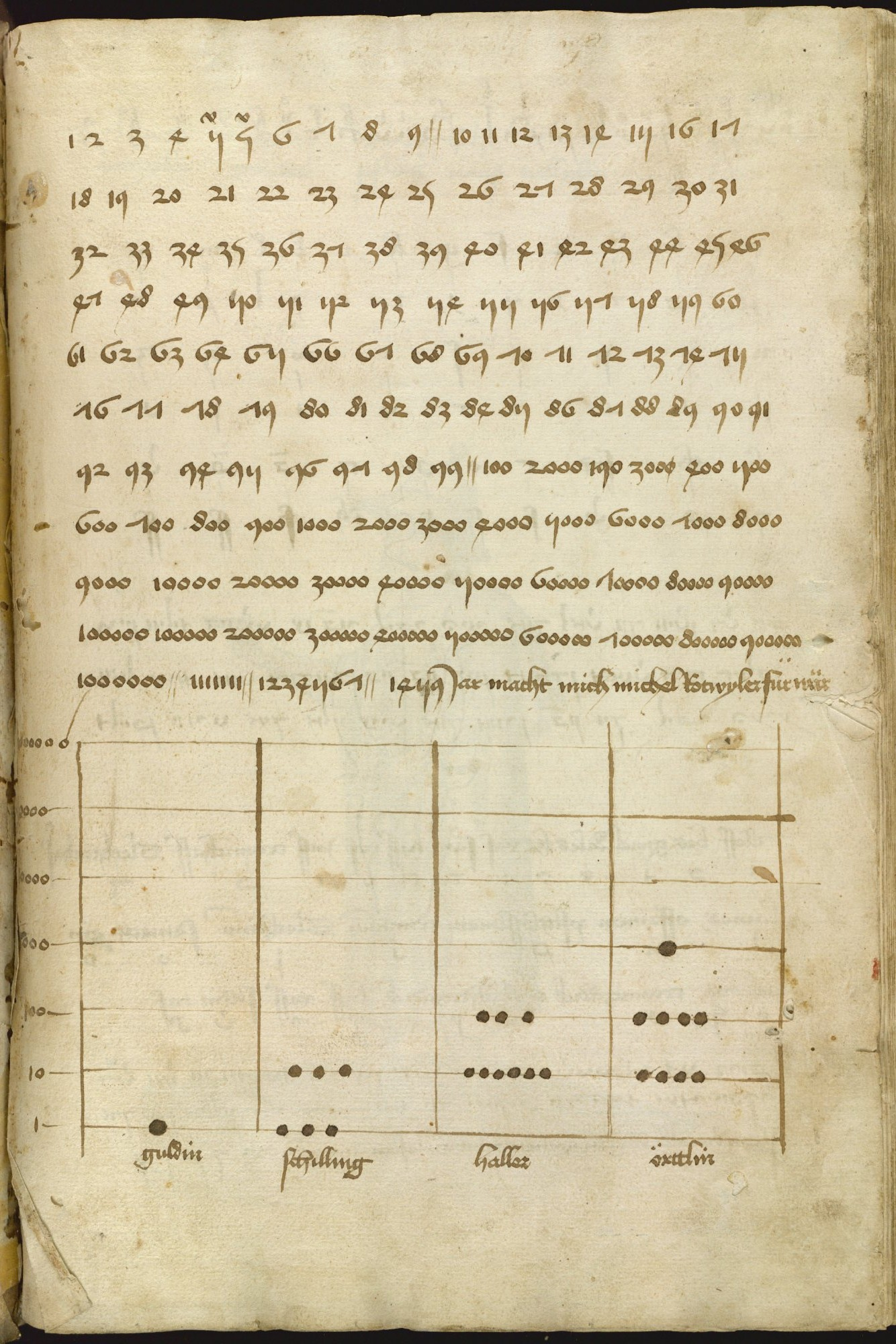 The Ms.Thott.290.2º is a fencing manual written in 1459 by Hans Talhoffer for his own personal reference and illustrated by Michel Rotwyler.